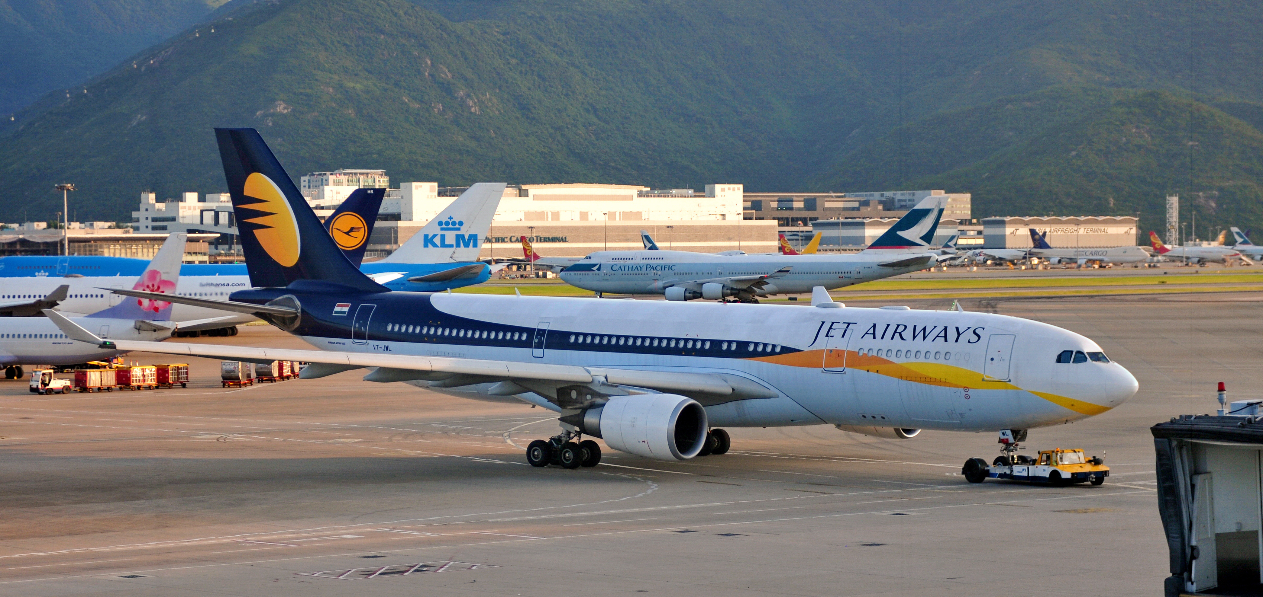 Airbus A330-202 VT-JWL of Jet Airways at Hong Kong Airport